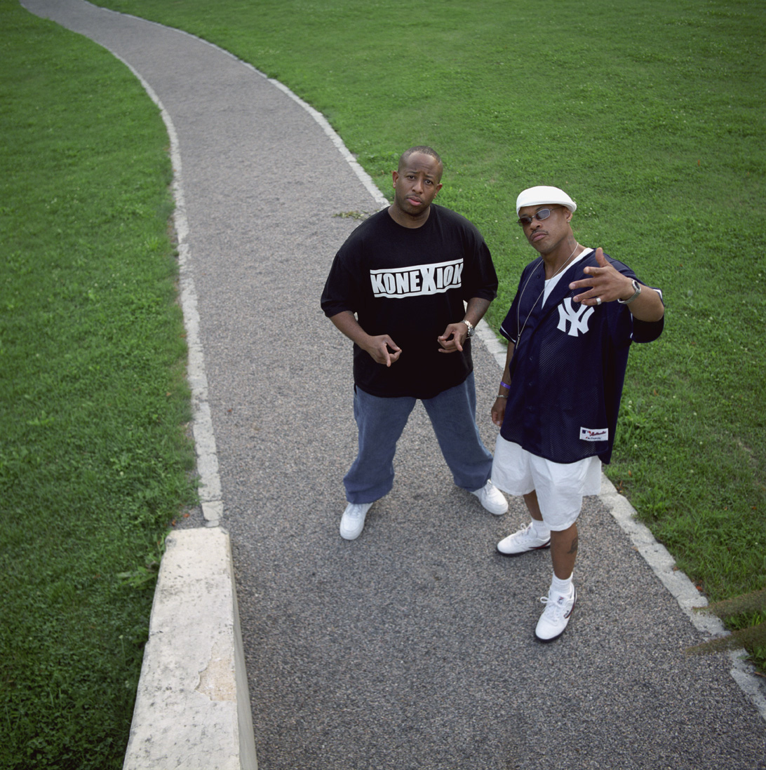 Germany 2003